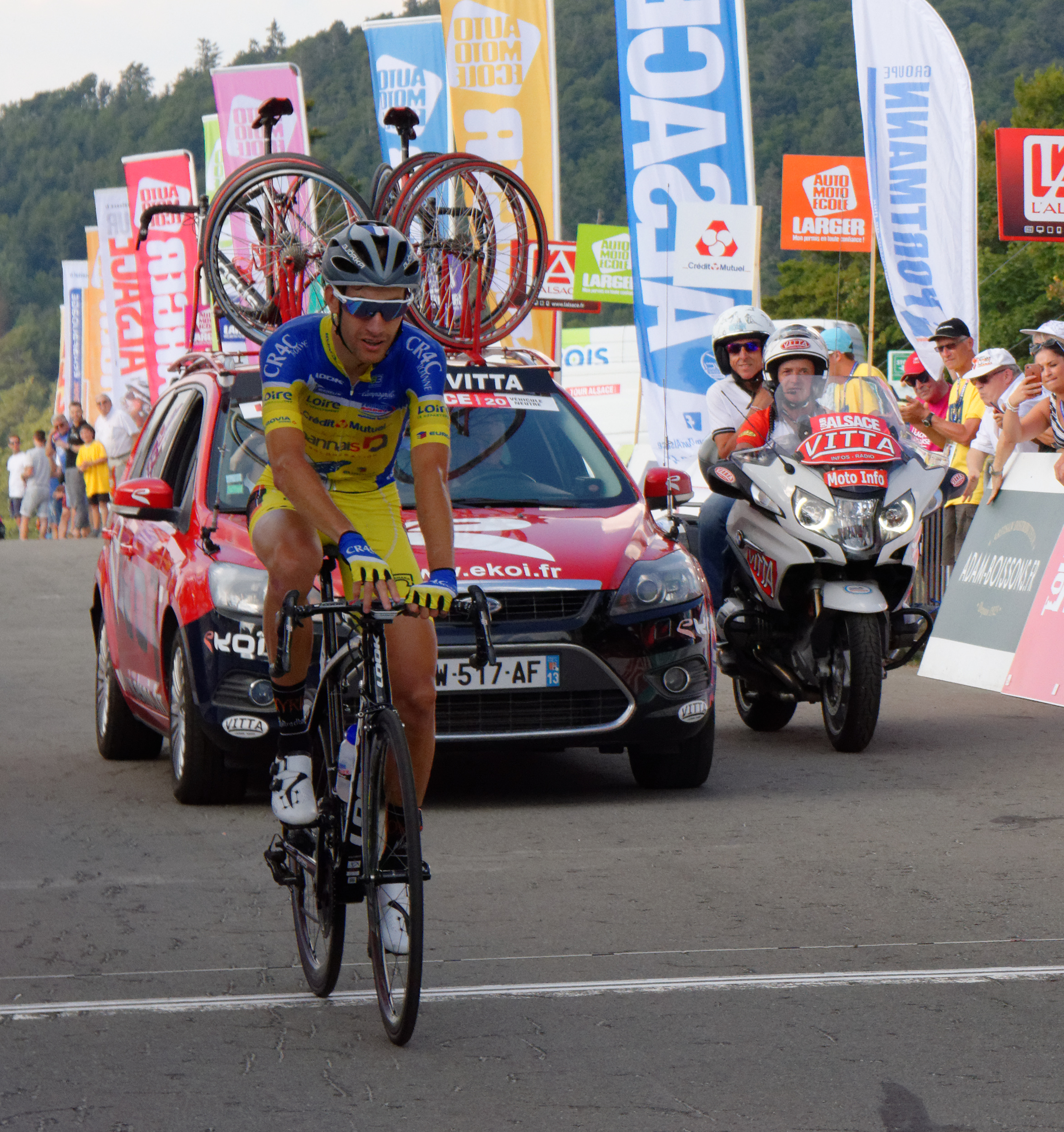 Personality rights warningAlthough this work is freely licensed or in the public domain, the person(s) shown may have rights that legally restrict certain re-uses unless those depicted consent to such uses. In these cases, a model release or other evidence of consent could protect you from infringement claims.